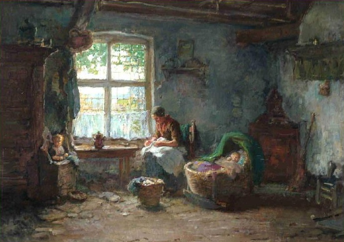 Painting of an interior by A.H.C. Briët